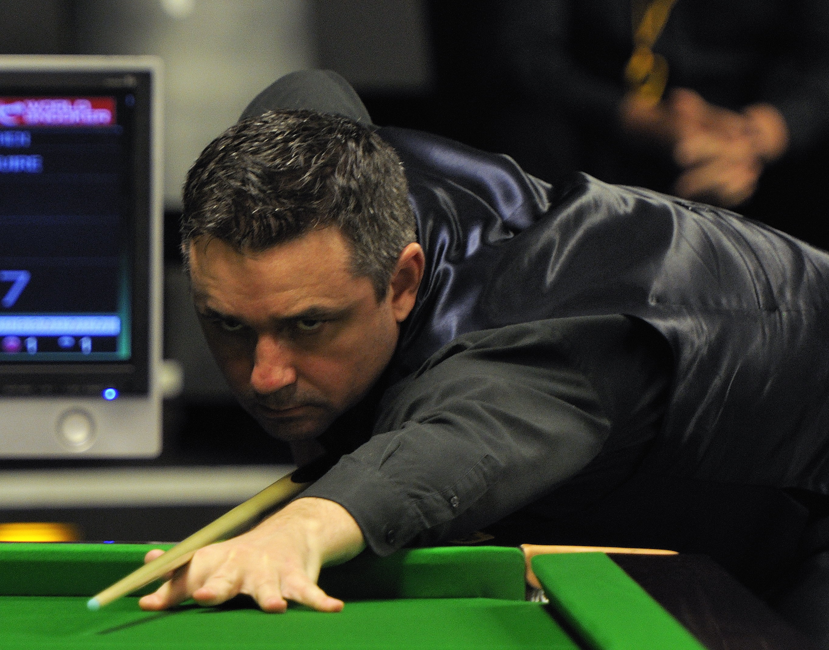 Picture taken in Berlin during the Snooker German Masters in 2013. Alan McManus.